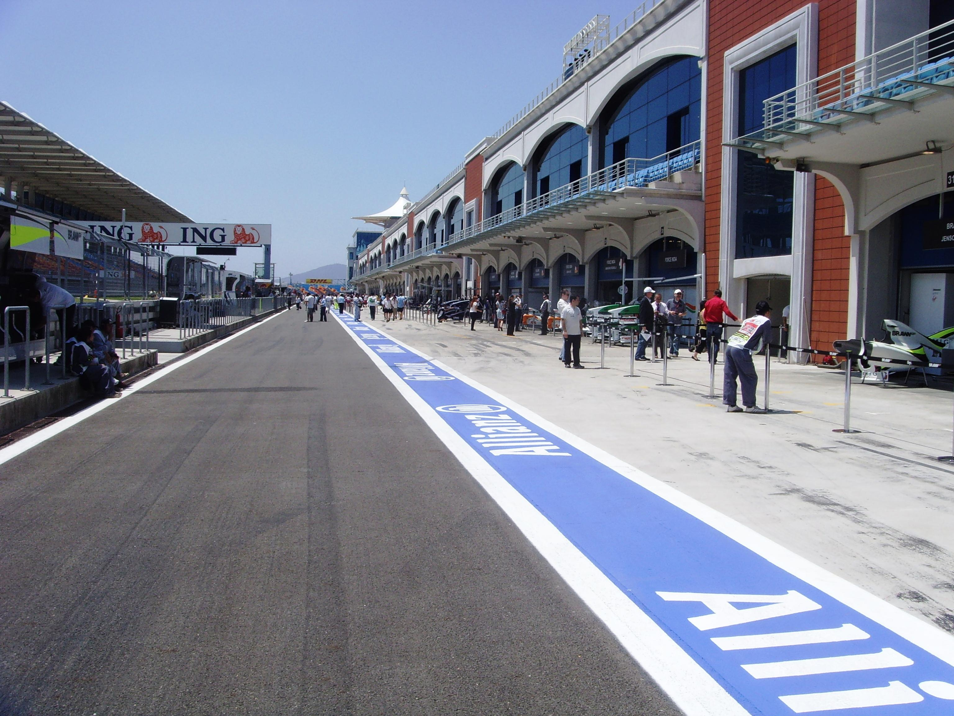 Pit lane at Istanbul Park